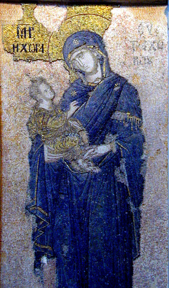 The Theotokos, Mother of God. Chora church in Constantinople/Istanbul. Photograph taken by Marsyas 13:25, 19 January 2006 (UTC)